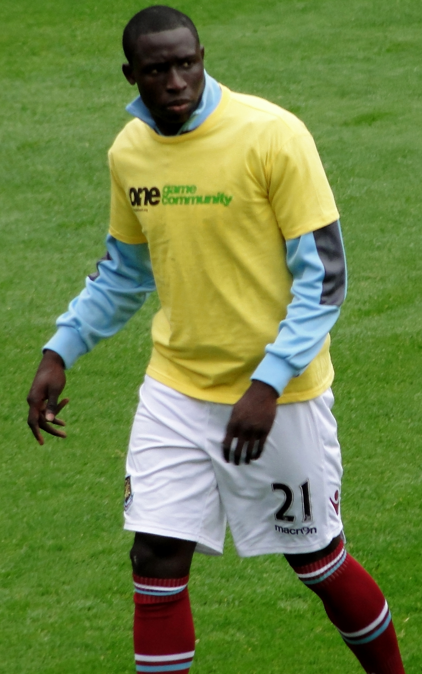 West Ham United player Mohamed Diamé wearing a Kick It Out t-shirt before their game against Southampton at The Boleyn Ground on 20 October 2012.